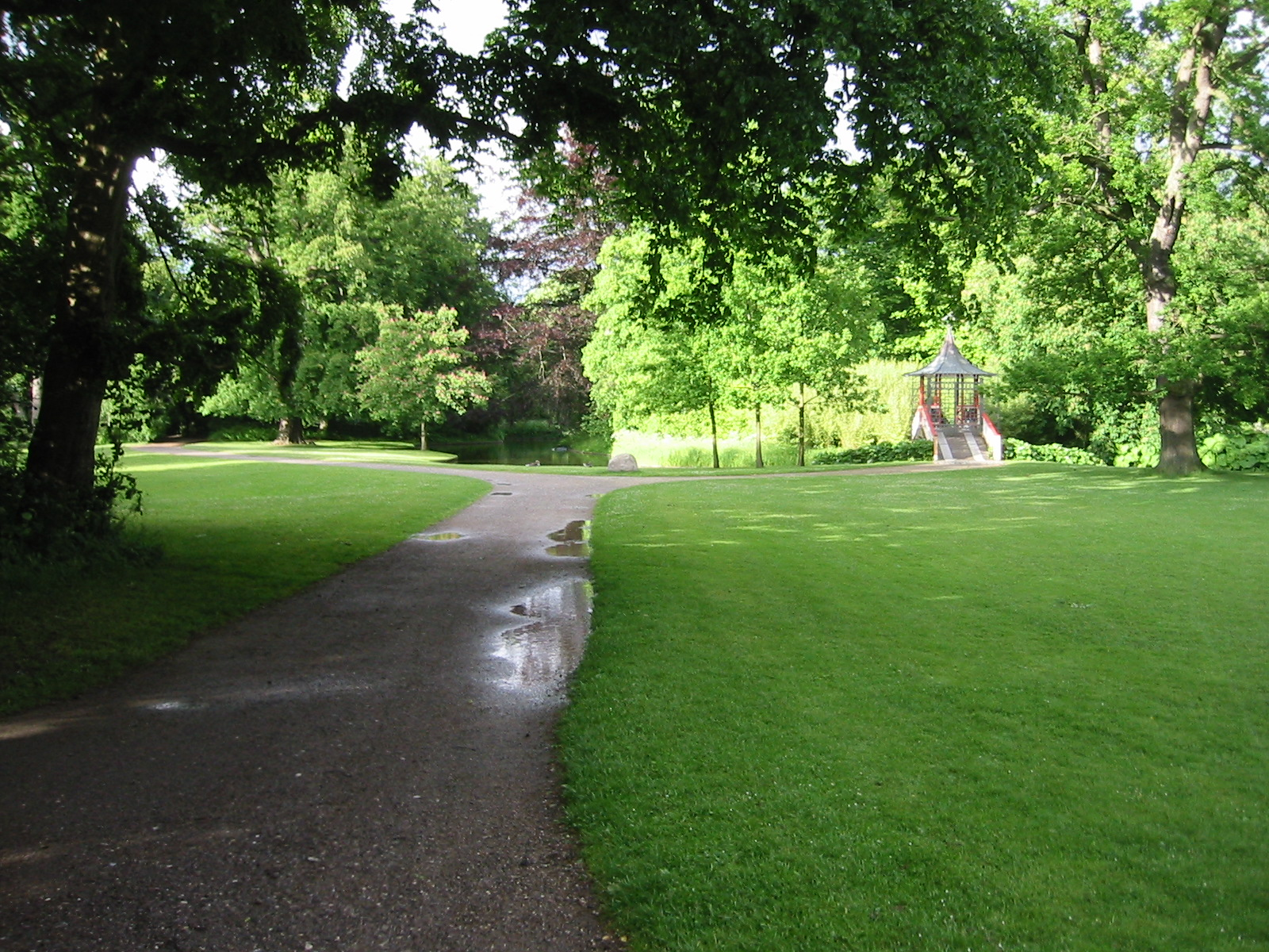 The park Frederiksberg Have in Copenhagen.